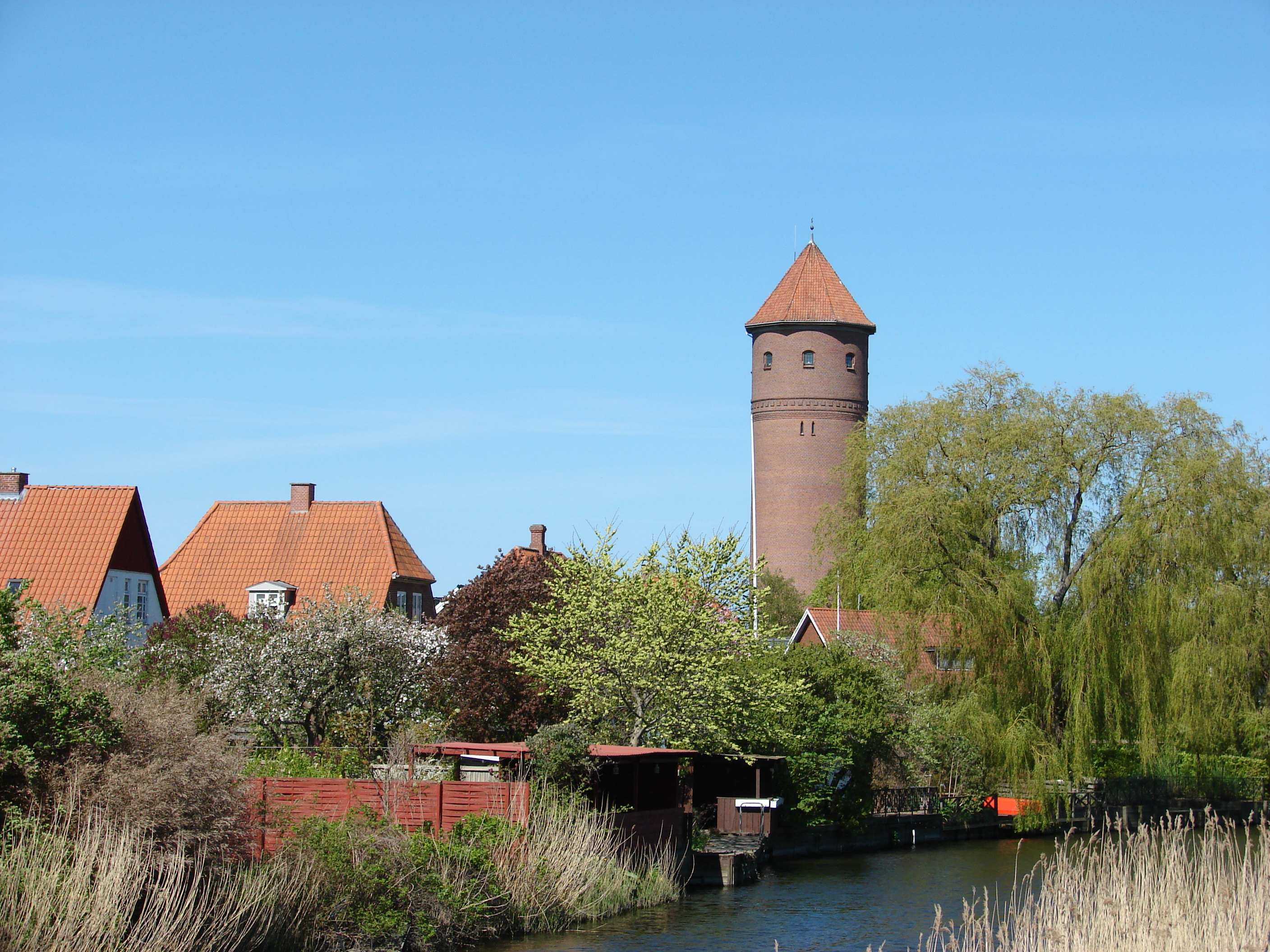 Water tower in Køge (the first - build in 1892) south of Copenhagen